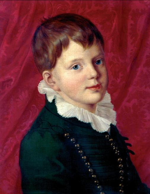 The second but eldest surviving son of Karl Frederick, Grand Duke of Saxe-Weimar-Eisenach and Grand Duchess Maria Pavlovna of Russia.